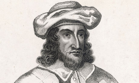 John Cooke This is top half of the "Fictitious portrait called John Cook" by Robert Cooper in the collection of the National Portrait Gallery, London (NPG D17879).